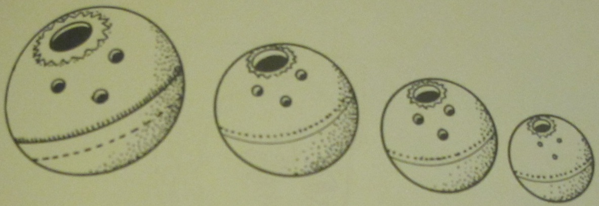 Sindhi Cultural Musical Instrument